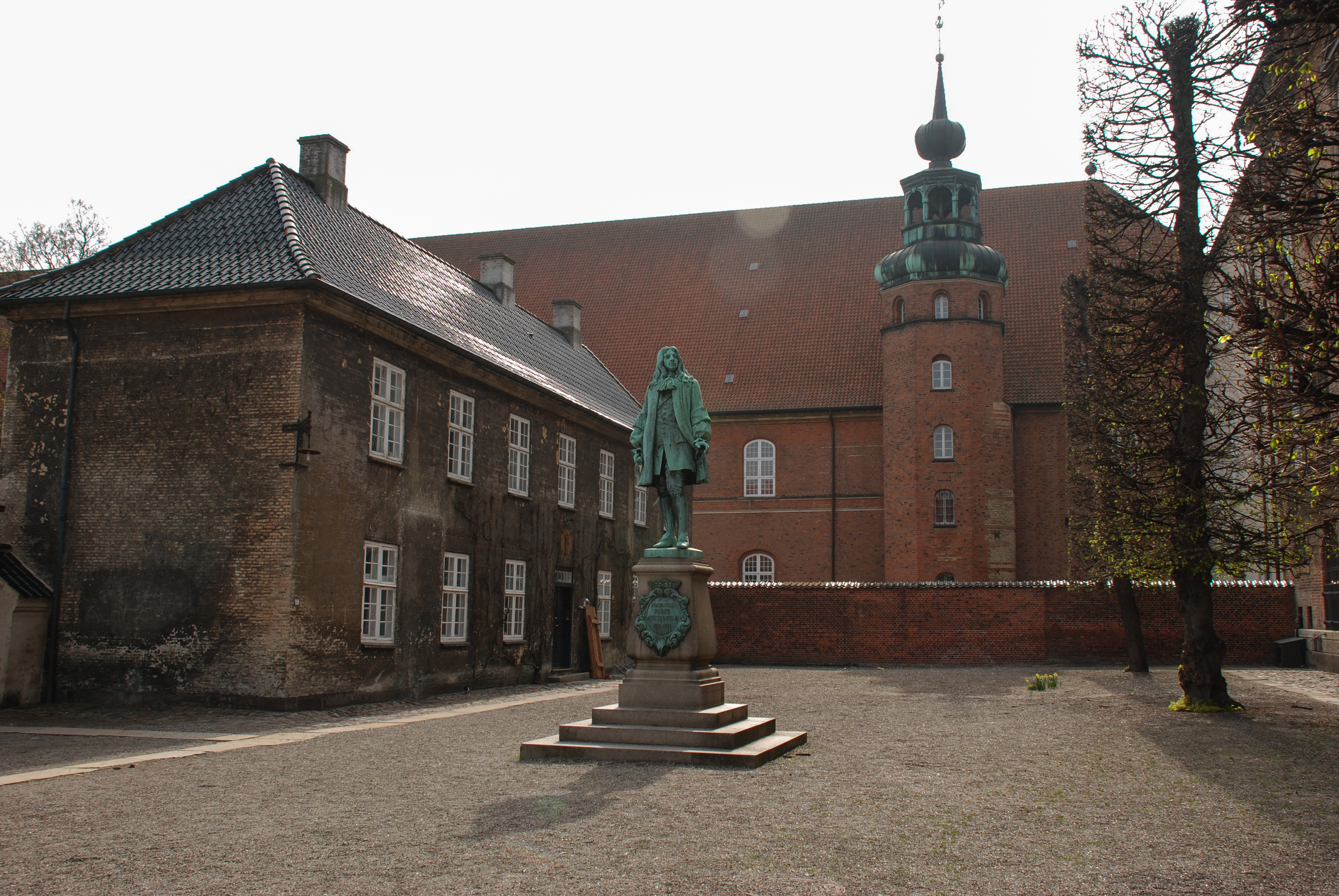 Peder Griffenfeld statue in the Royal Library Garden in Copenhagen, Denmark.